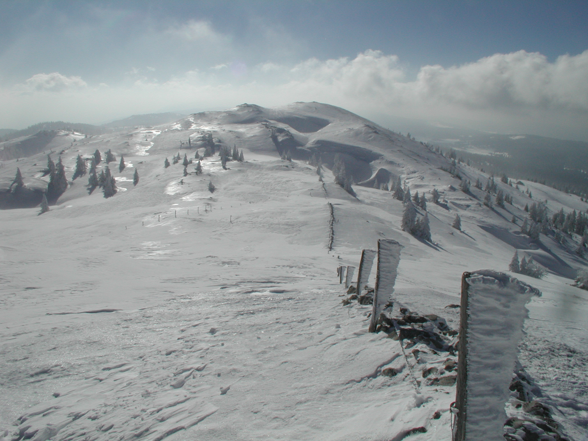 SW-Sight from the Top of Mont Tendre